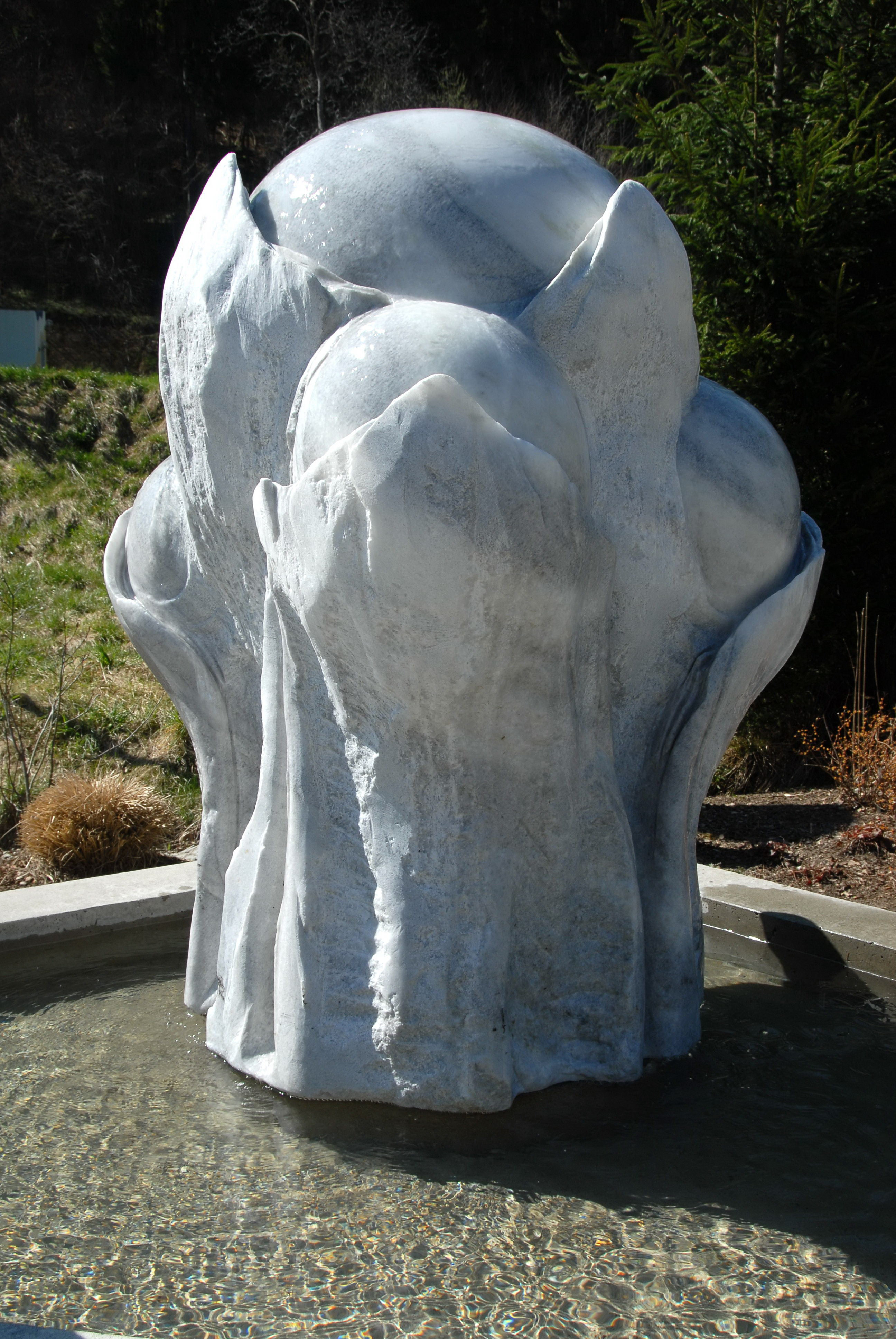 Urbani fountain in Sankt Urban, municipality Steindorf am Ossiacher See, district Feldkirchen, Carinthia, Austria, EU